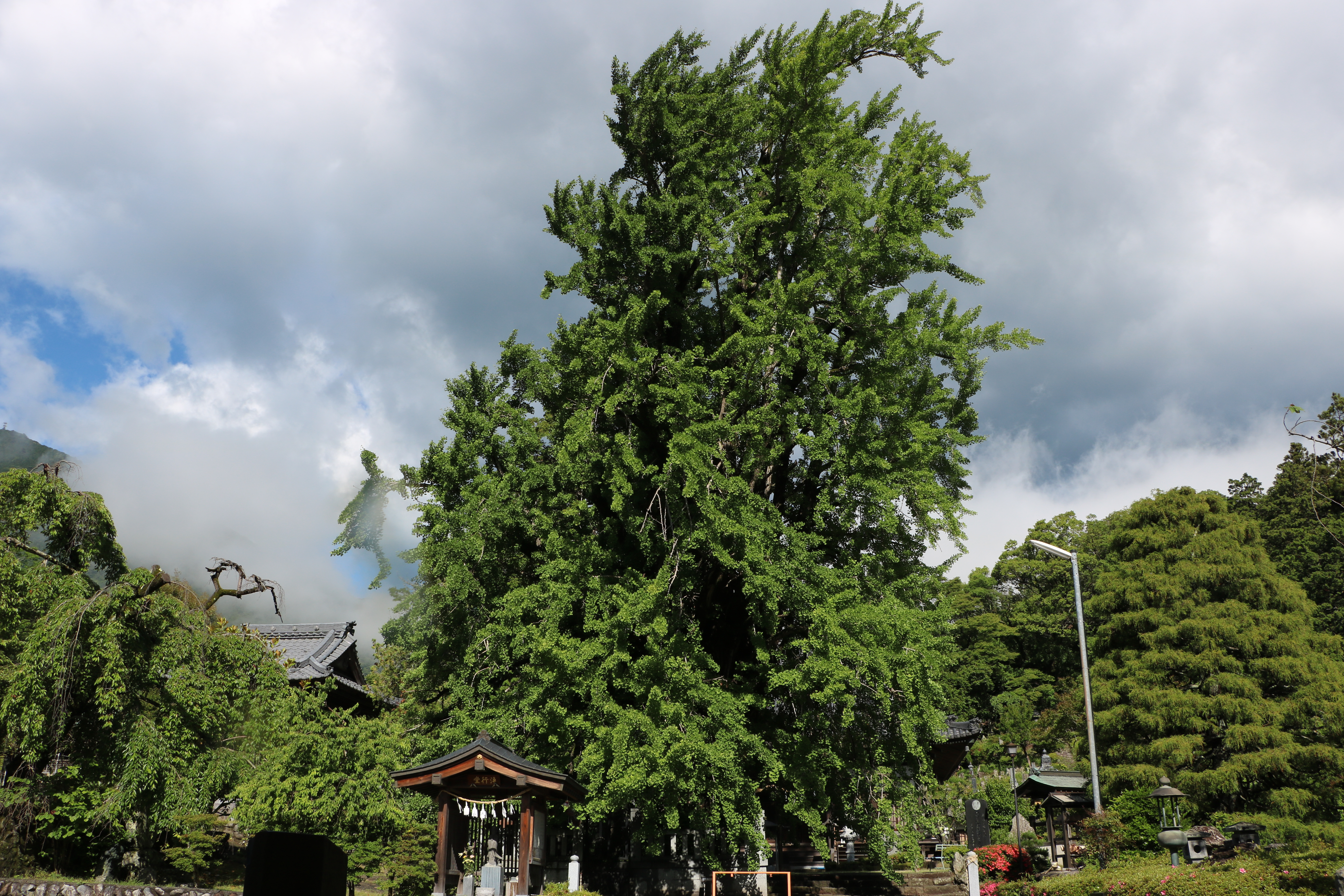 Hongokuji no Ohatsuki Icho. Ginkgo biloba natural monuments in Japan.